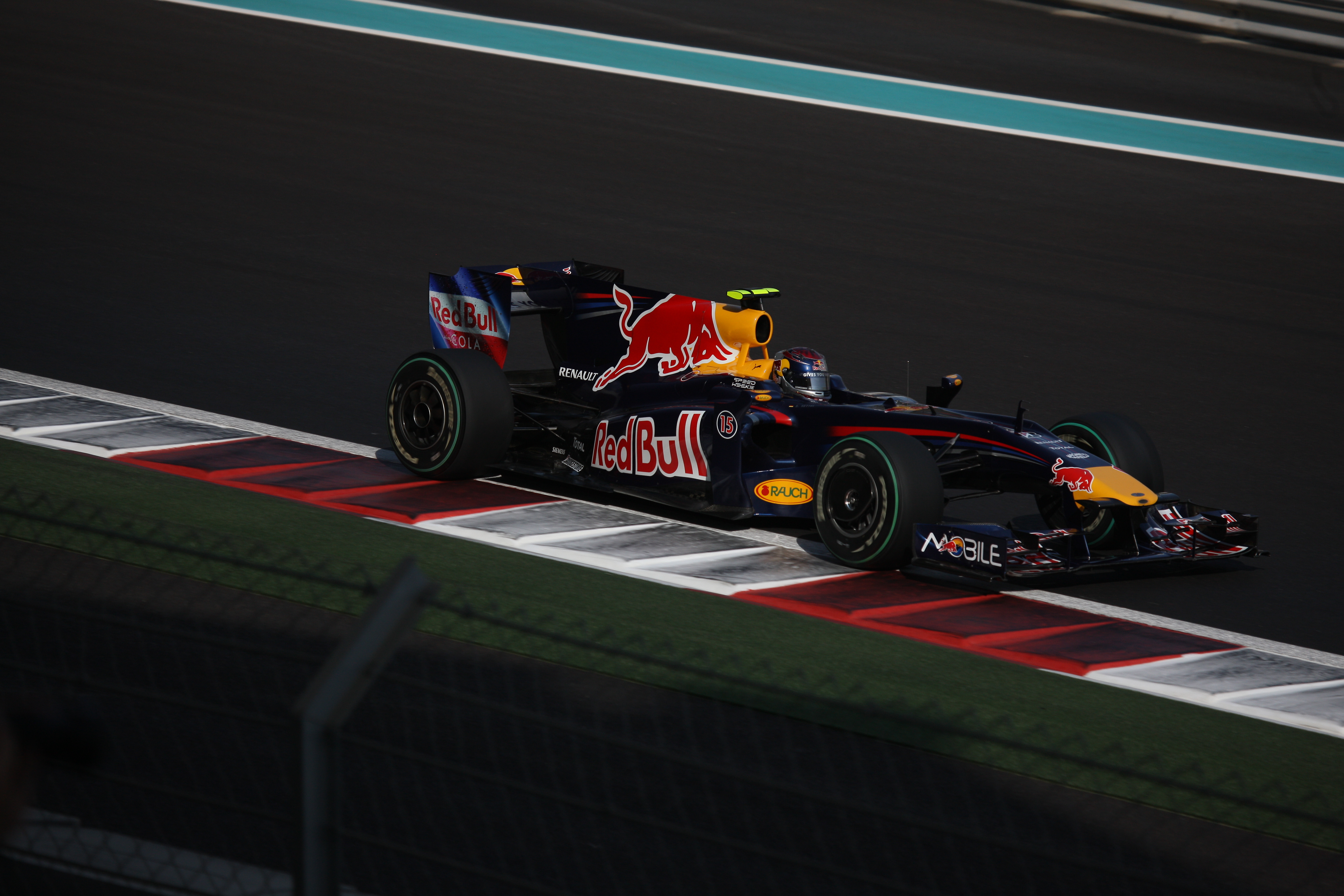 Sebastian Vettel Red Bull RB5 on Saturday at 2009 Abu Dhabi Grand Prix